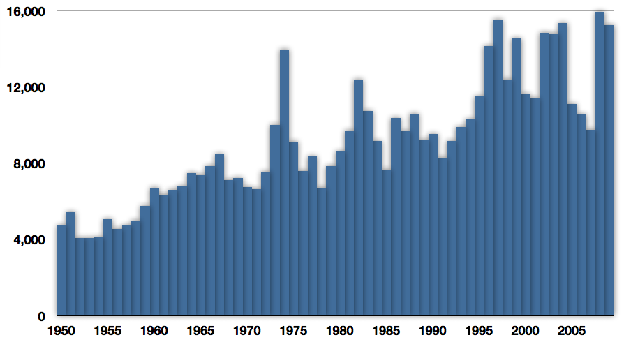 Fisheries recorded capture of Scomberomorus cavalla from 1950 to 2009. Data source FAO fisheries